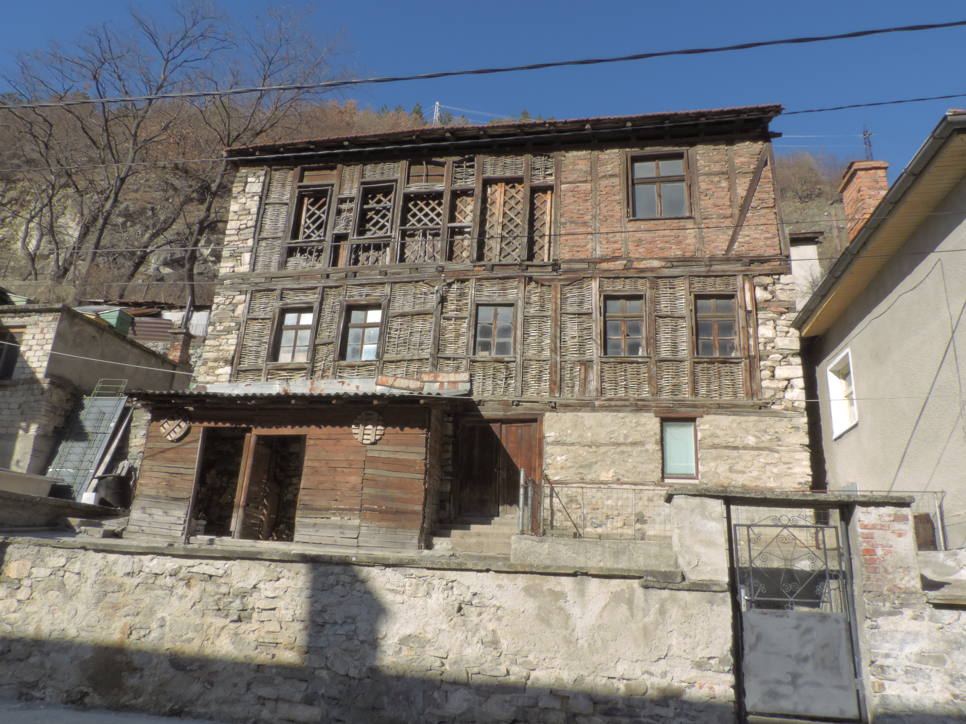 Village Mihalkovo, Devin Municipality, Smolyan Province, Bulgaria. A 96-year-old wooden house (in 2017).